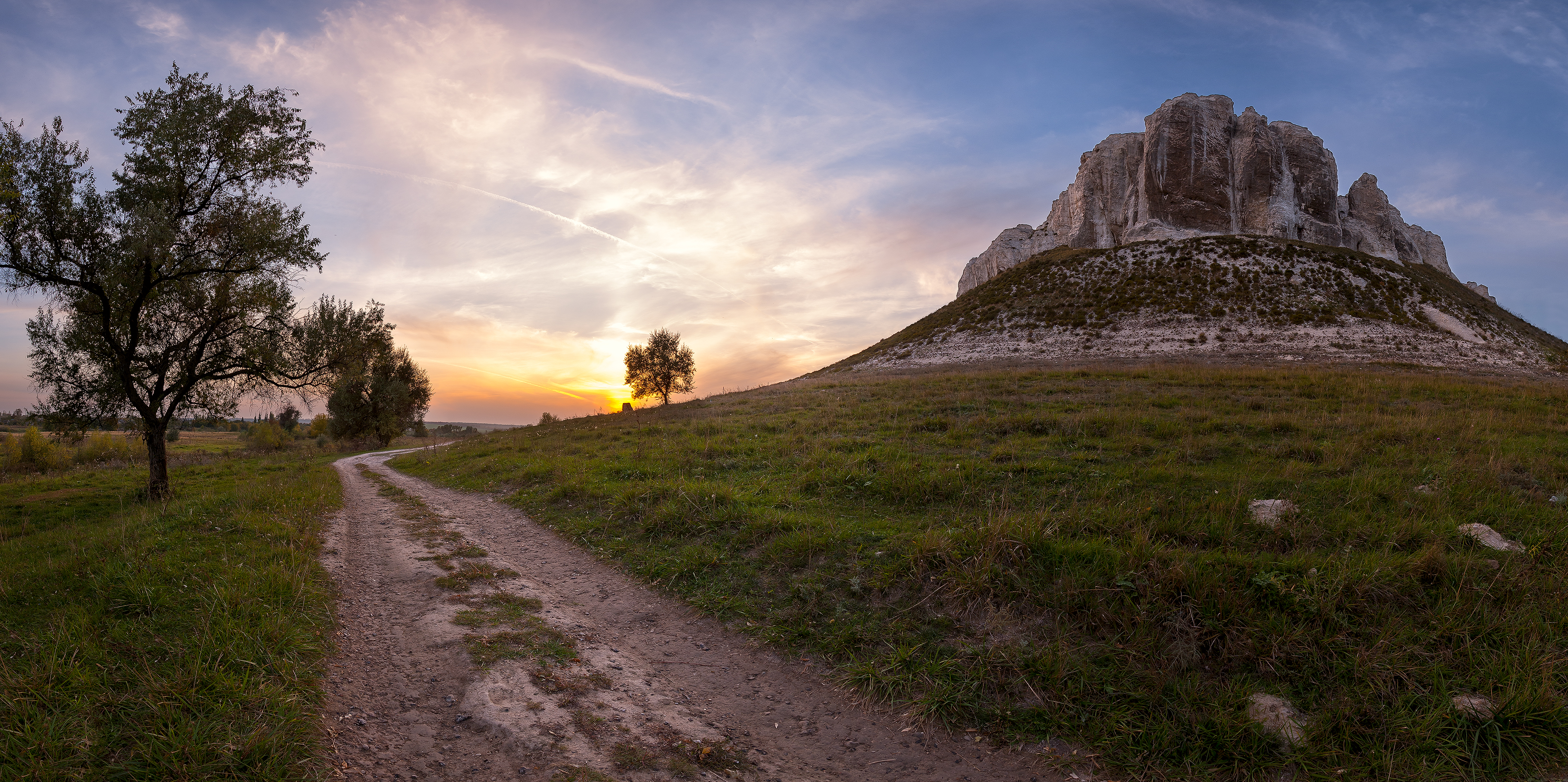 Upper Cretaceous rock exposure (geological natural monument)